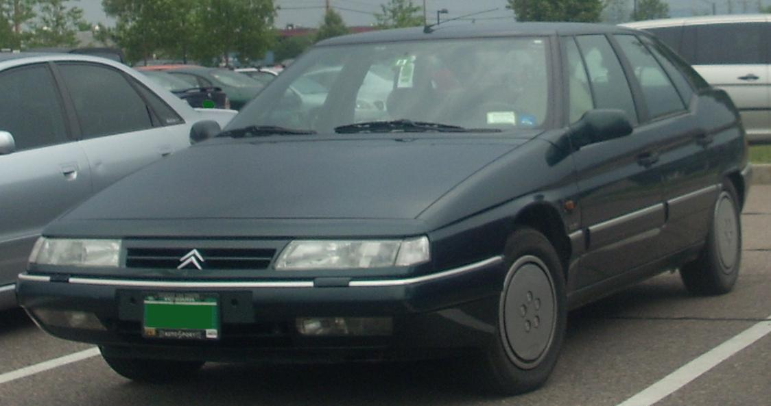 Citroen XM photographed in Williston, Vermont, USA.